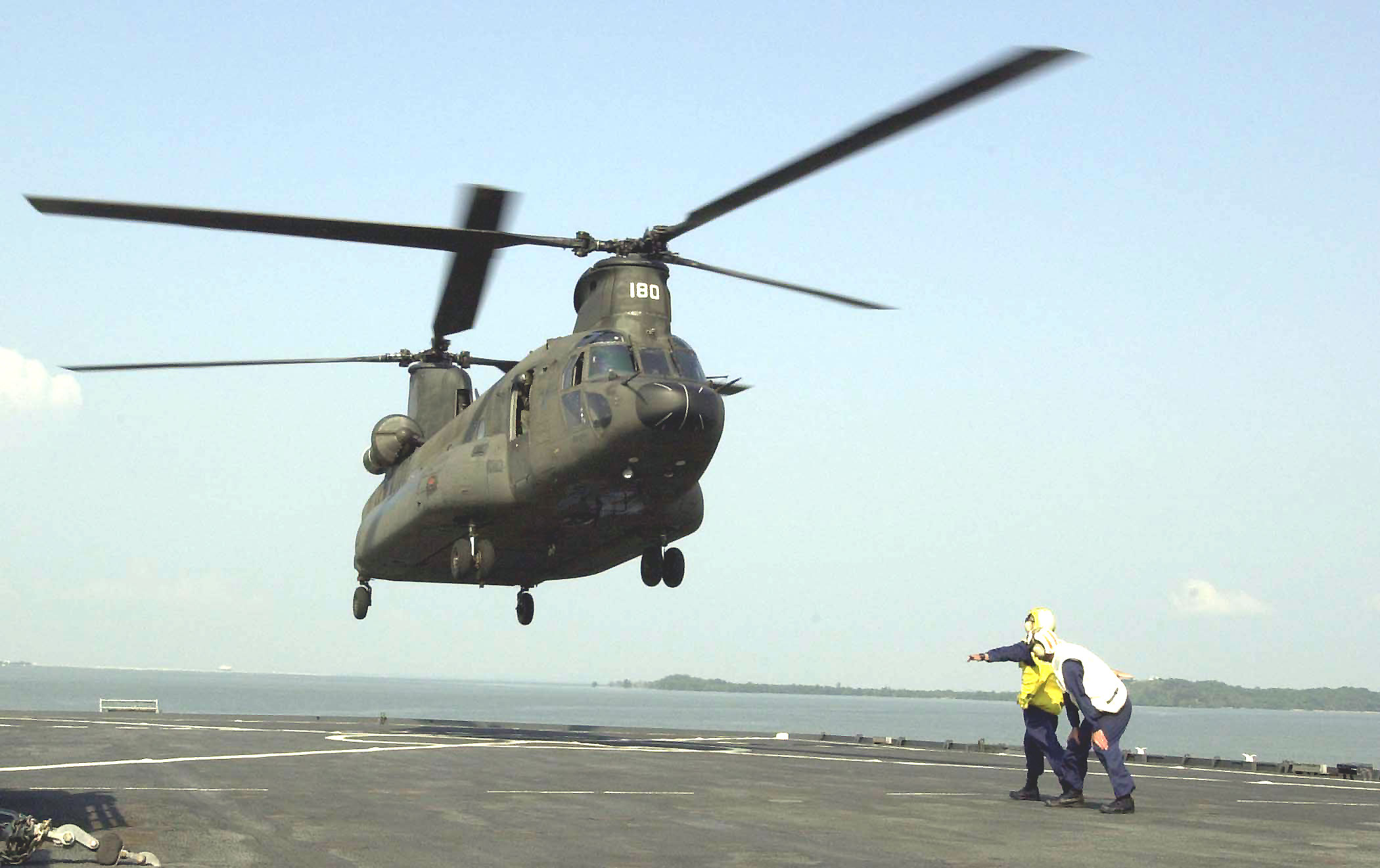 OFF THE COAST OF SINGAPORE -- A Singaporean helicopter lands on USS RUSHMORE July 10 during a training exercise that is part of the seventh annual Cooperation Afloat Readiness and Training 2001 exercise. CARAT, a series of bilateral exercises, takes place throughout the Western Pacific each summer. The exercise increases regional cooperation and promotes interoperability with participating nations. Military forces from Indonesia, Singapore, Philippines, Thailand, Malaysia and Brunei are participating in CARAT 01